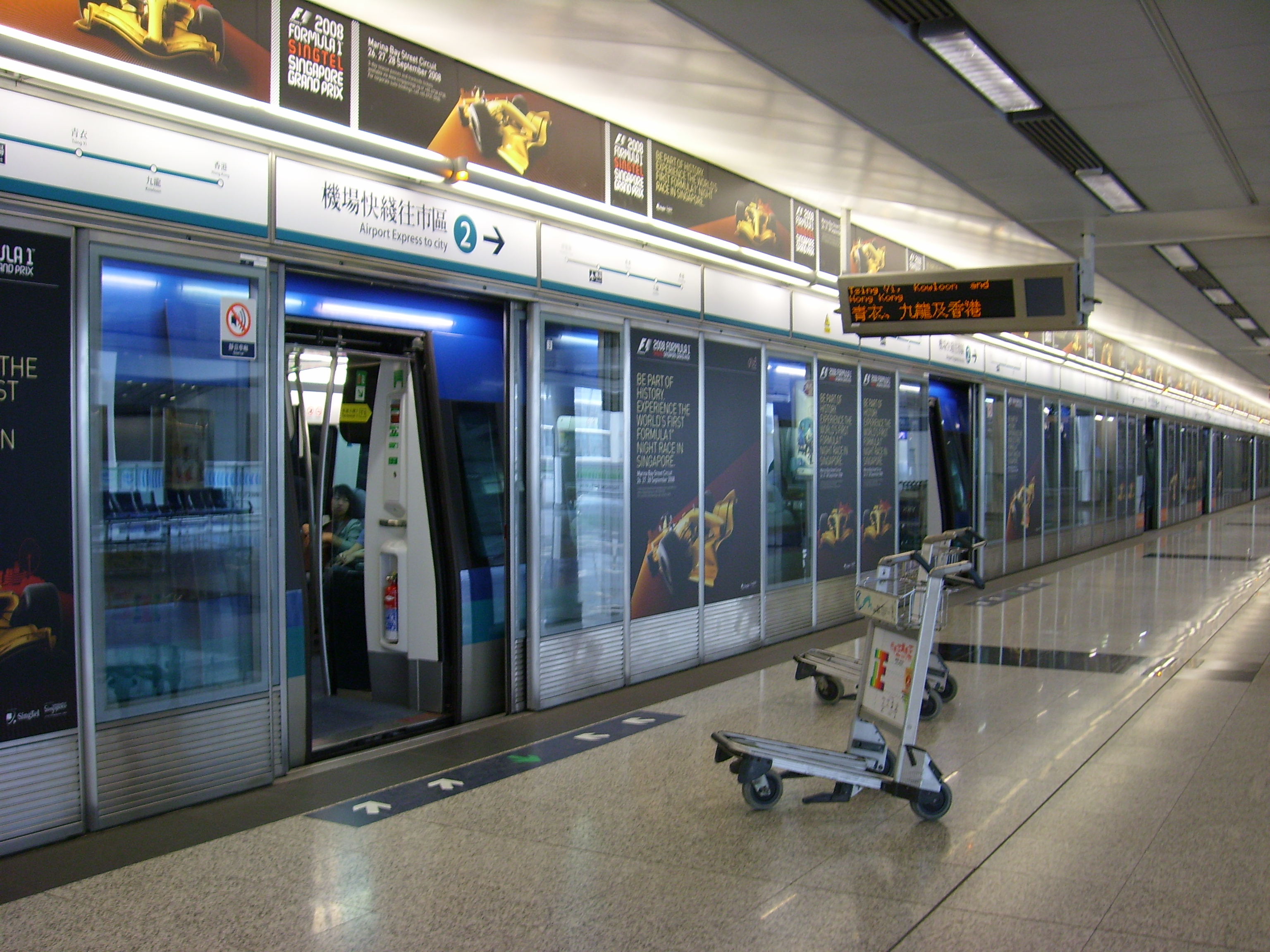 MTR Airport Station Platform 2